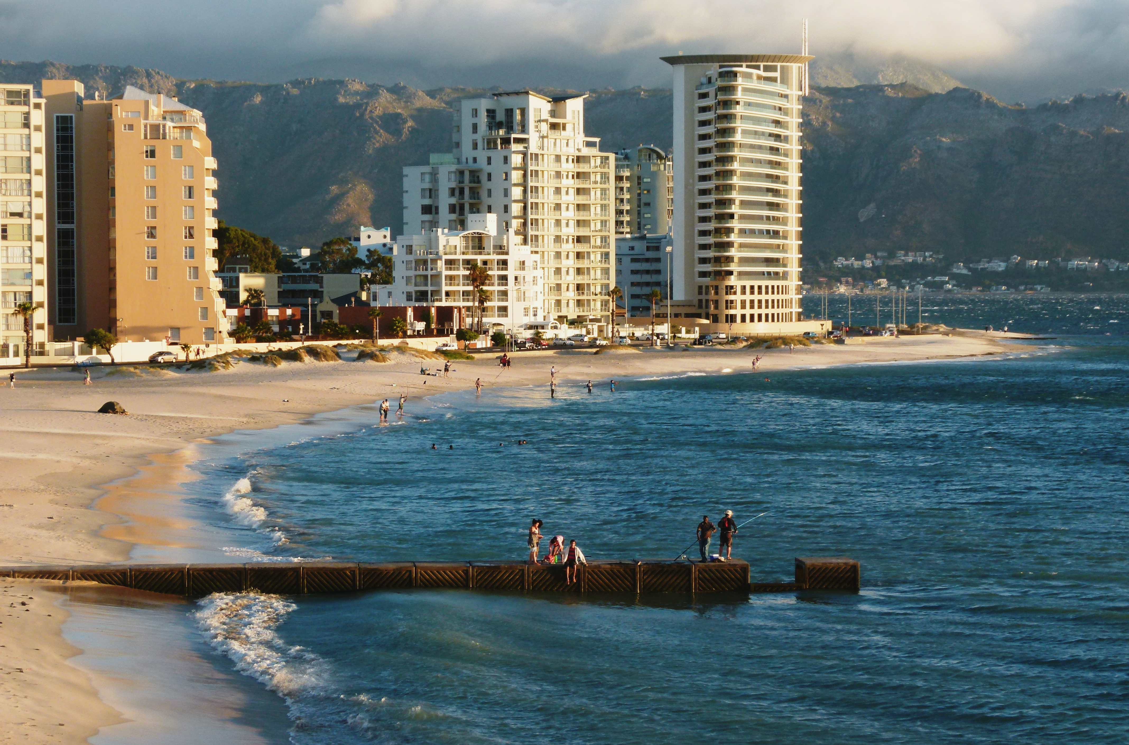 Strand, Western Cape